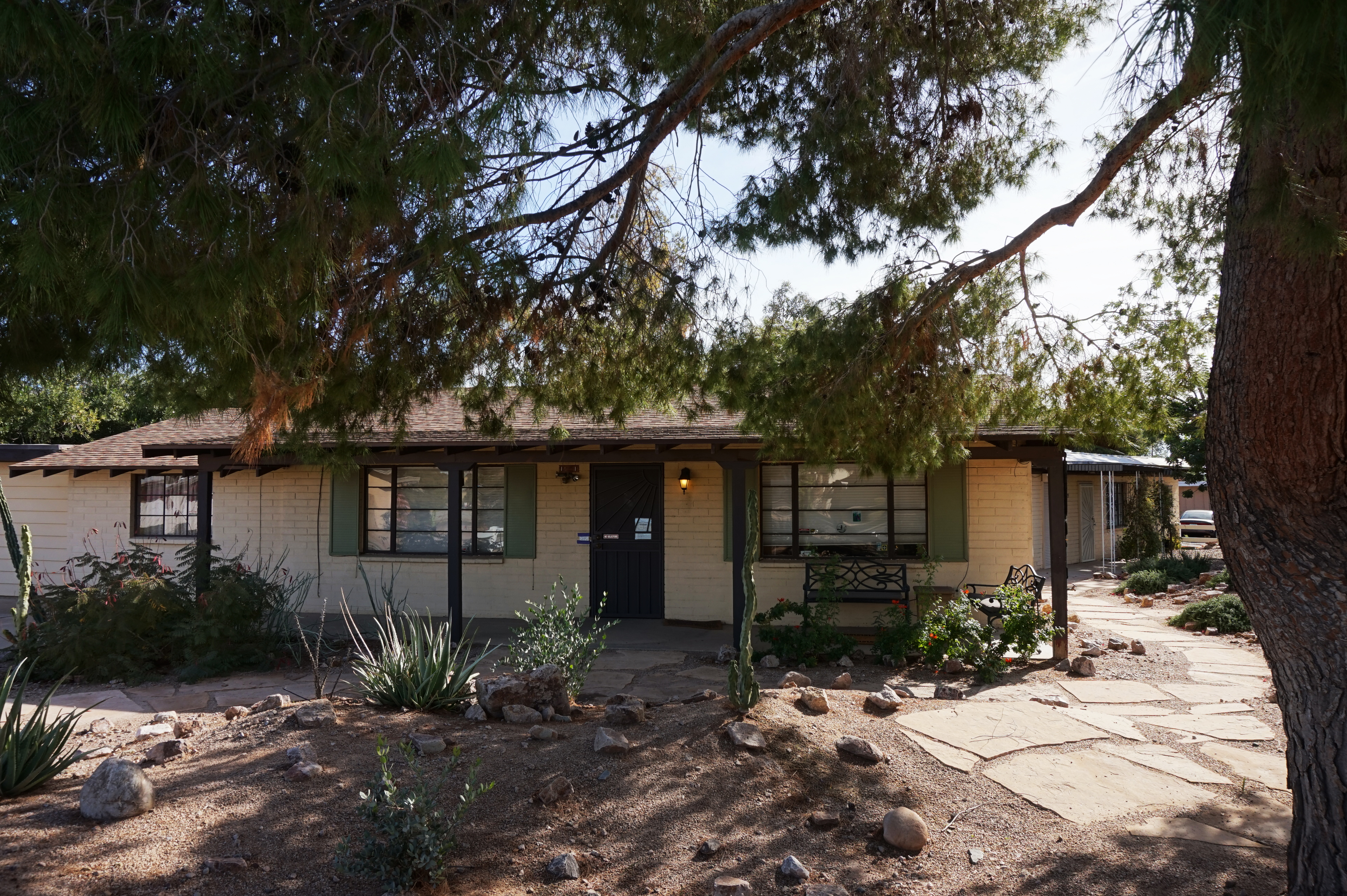 Milton H. Ericksons house in Phoenix, Arizona